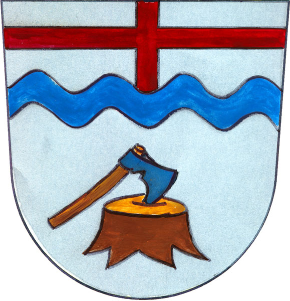 Coat of amrs of Oseček , District Nymburk, Czech republic